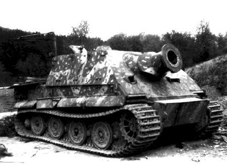 Sturmpanzer VI Sturmtiger captured intact by US troops and photographed on 14. April 1945